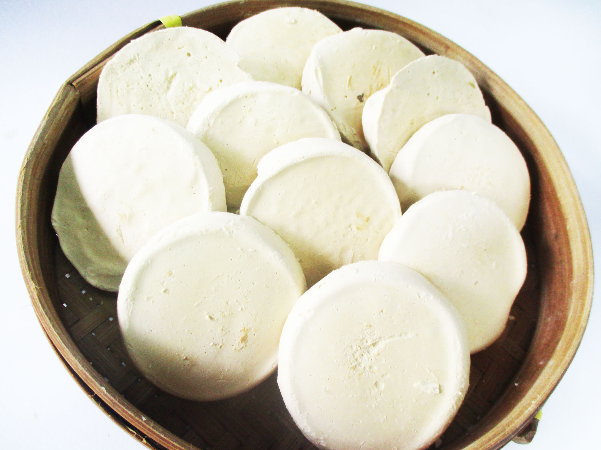 Brem is a food derived from glutinous rice which is cooked and dried, which is the result of fermented sticky rice which is taken only from the juice which is then deposited around a day and a night. These foods are usually found in Wanagiri, Central Java and Madiun, East Java.